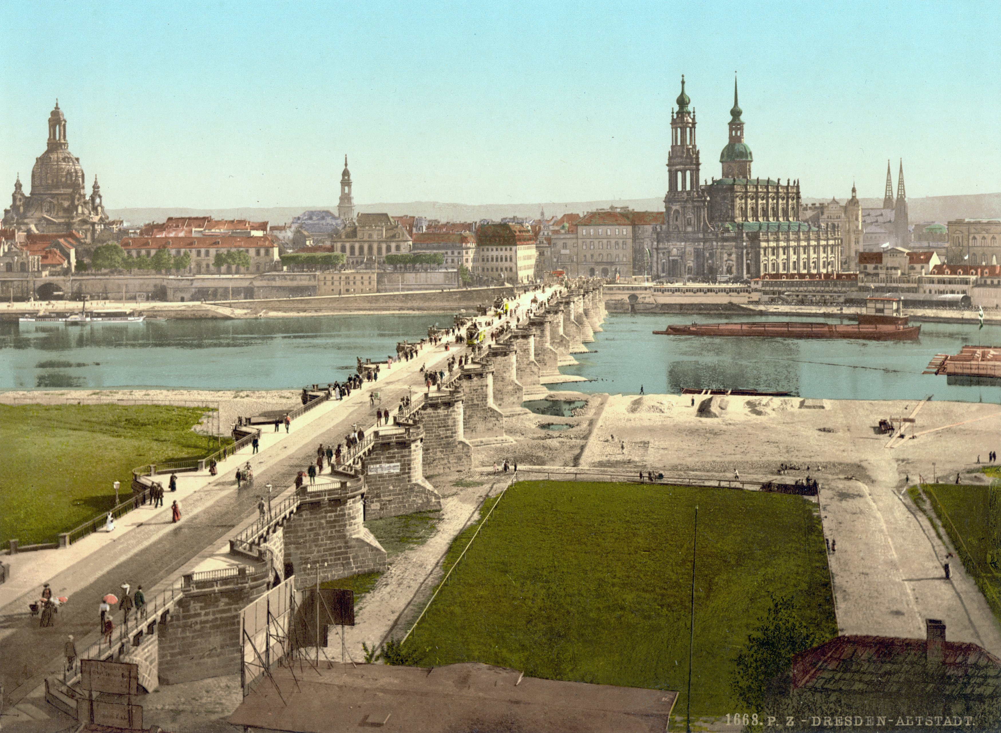 Dresden (Saxony, Germany) - the Old Town and the Augustus Bridge, looking from the Ministry of War